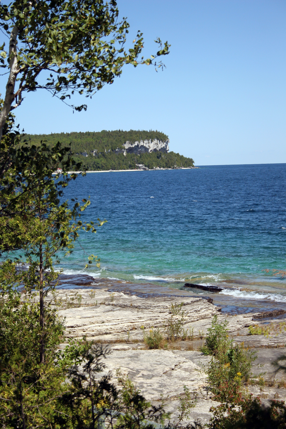 View from Isthmus Bay to Smokey Head White Bluffs Provincial Nature Reserve. Located near Lion's head, Ontario